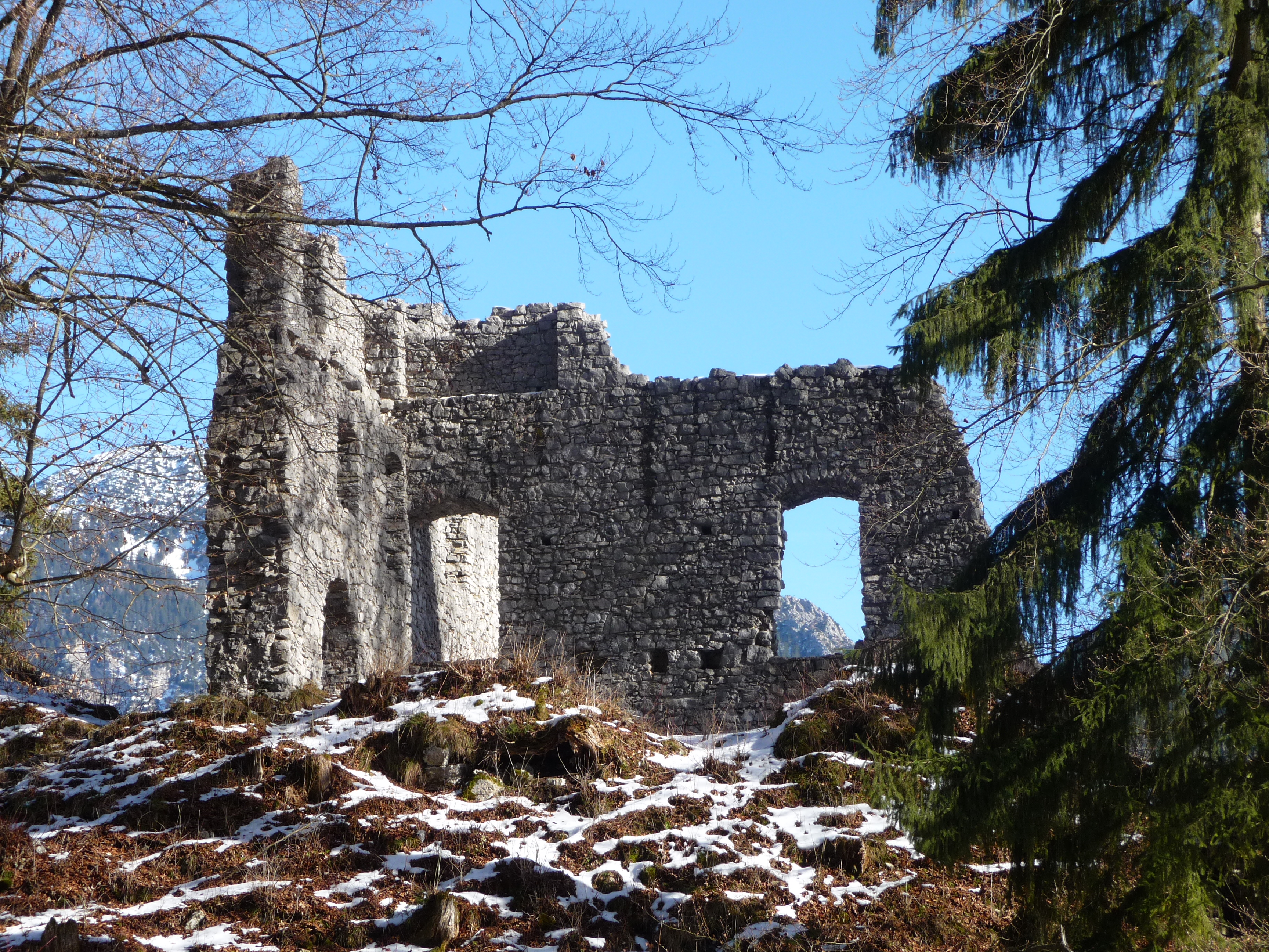 Remains of an old castle close to the town of Garmisch-Partenkirchen